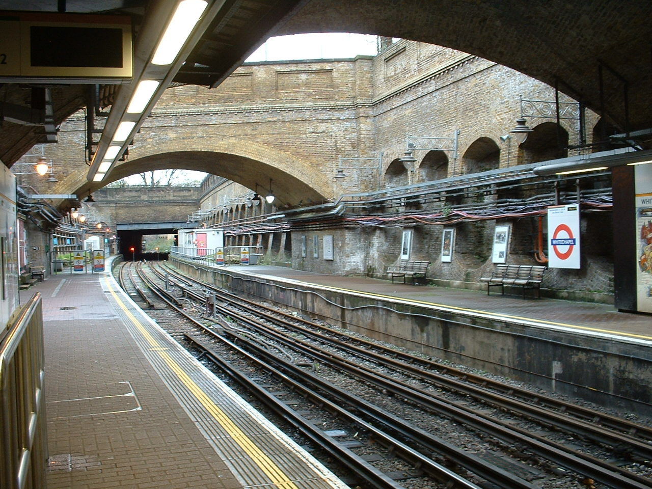 Former East London line platforms at Whitechapel looking north, prior to closure for refurbishment/extension work at end of service 22nd December 2007.